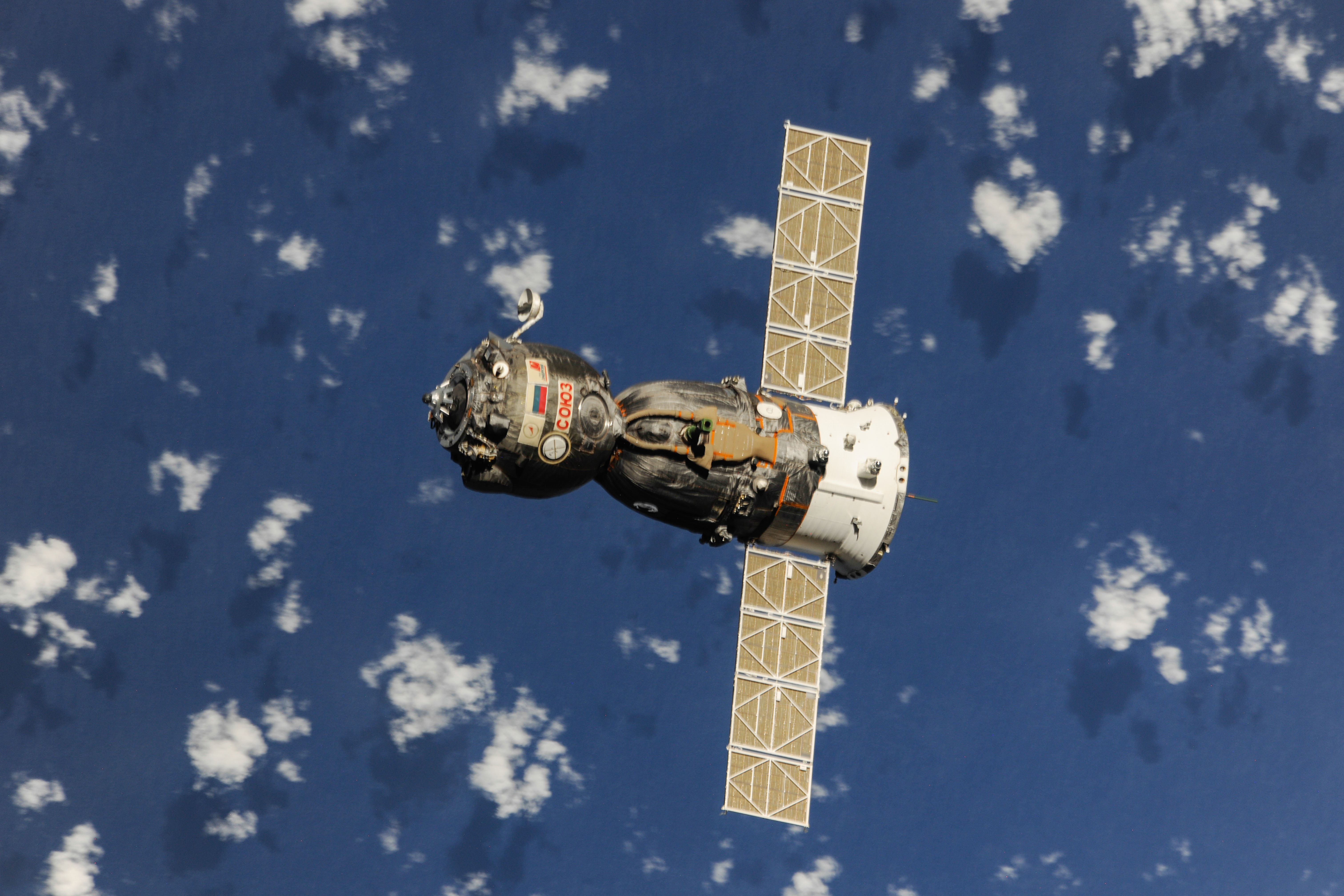 ISS037-E-000026 (10 Sept. 2013) --- The Soyuz TMA-08M spacecraft departs from the International Space Station's Poisk Mini-Research Module 2 (MRM2) and heads toward a landing in a remote area near the town of Zhezkazgan, Kazakhstan, on Sept. 11, 2013 (Kazakhstan time). Russian cosmonaut Pavel Vinogradov, Expedition 36 commander; along with NASA astronaut Chris Cassidy and Russian cosmonaut Alexander Misurkin, both flight engineers, are ending a five-and-a-half month stay at the space station where they served as members of the Expedition 35 and 36 crews.